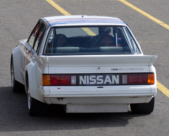 The Nissan Bluebird Turbo Group C (#16), as raced by Fred Gibson and John French in the 1983 Bathurst 1000. The cantankerous car only managed a 22nd place but sounded nice getting there.